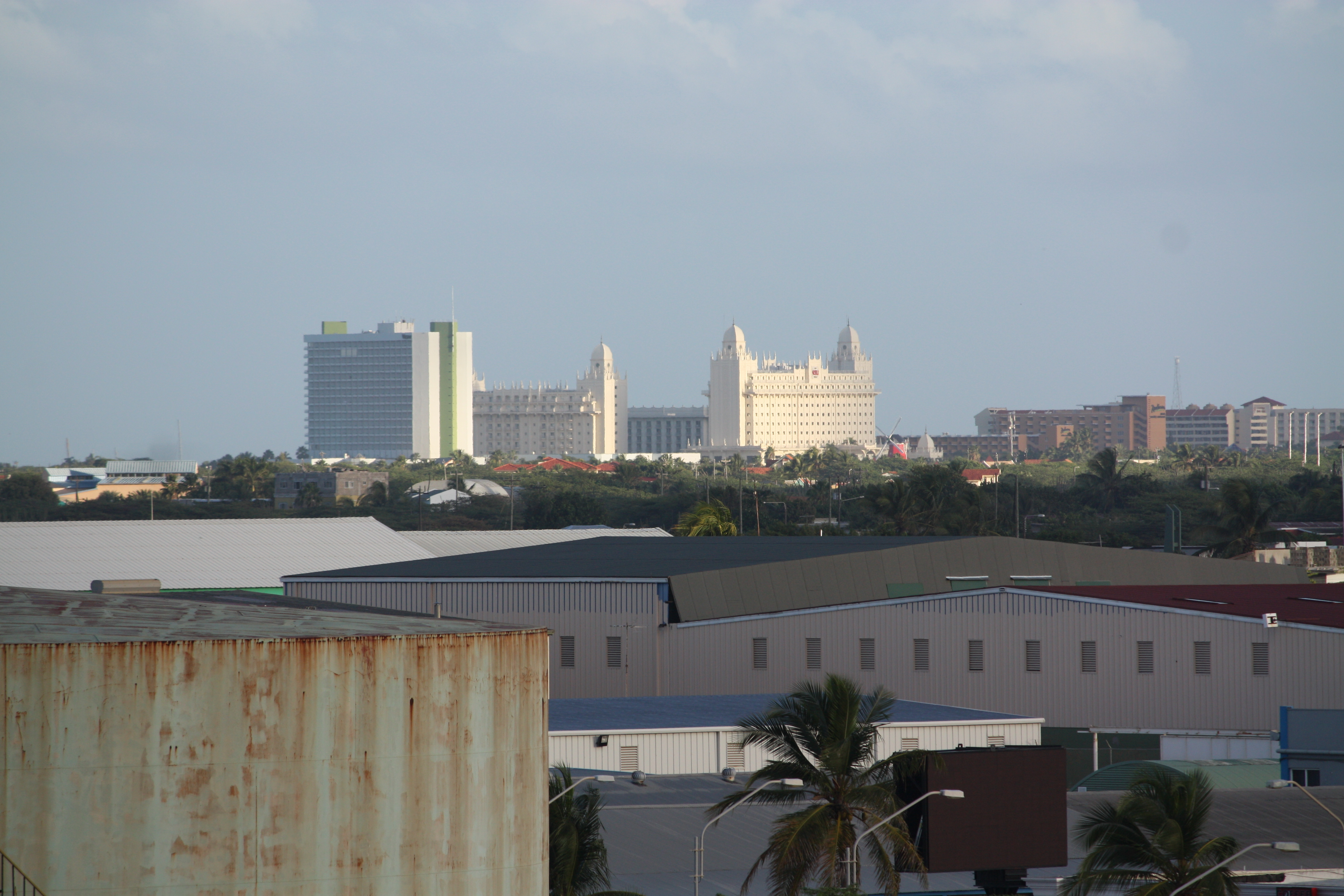 Townscape of Oranjestad as seen from a cruise ship at the Port